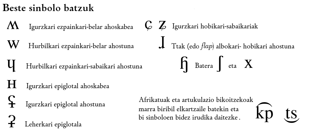 International Phonetic Alphabet translated into basque. Other symbols.